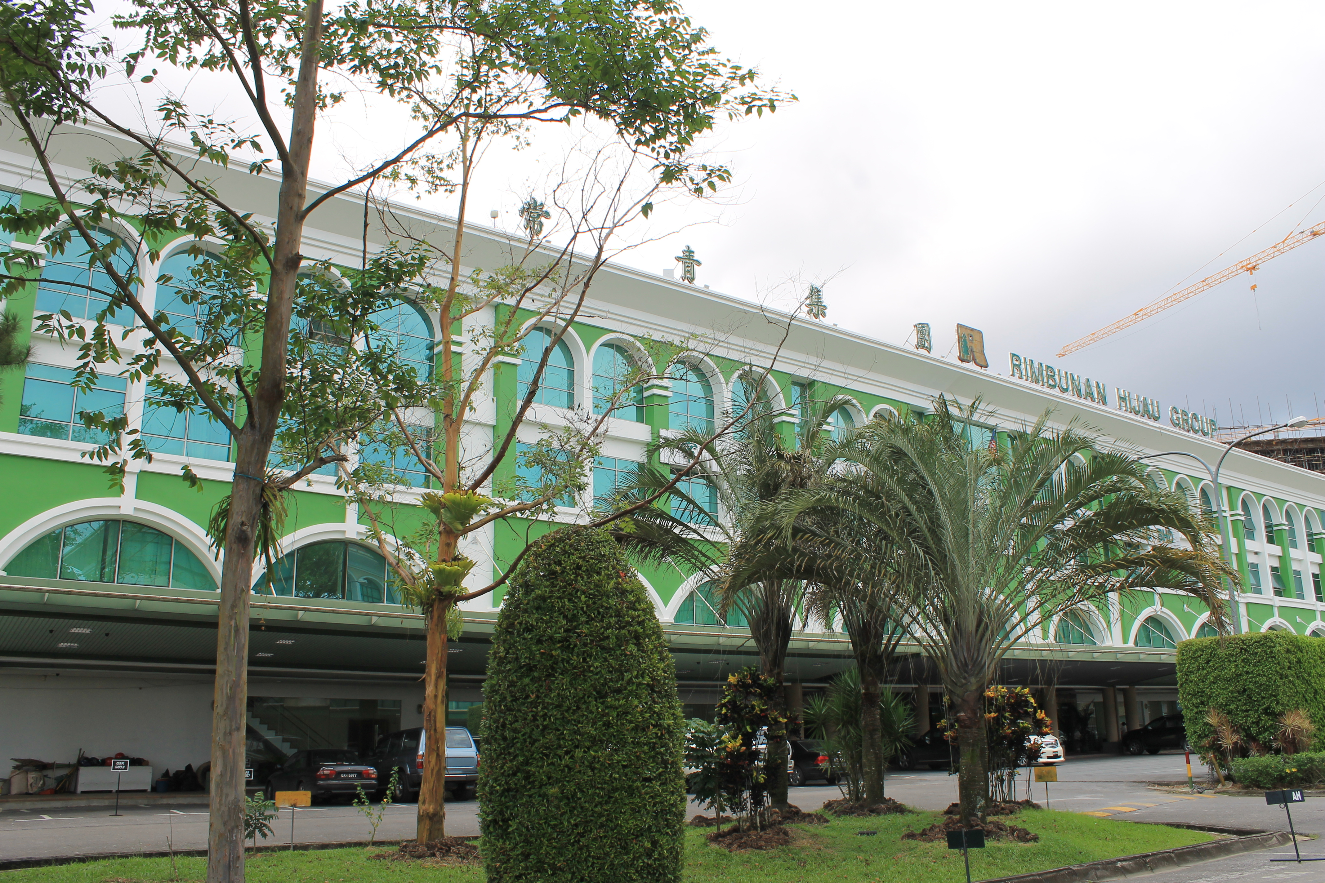 Headquarter of RH Group at Jalan Upper Lanang, Sibu.